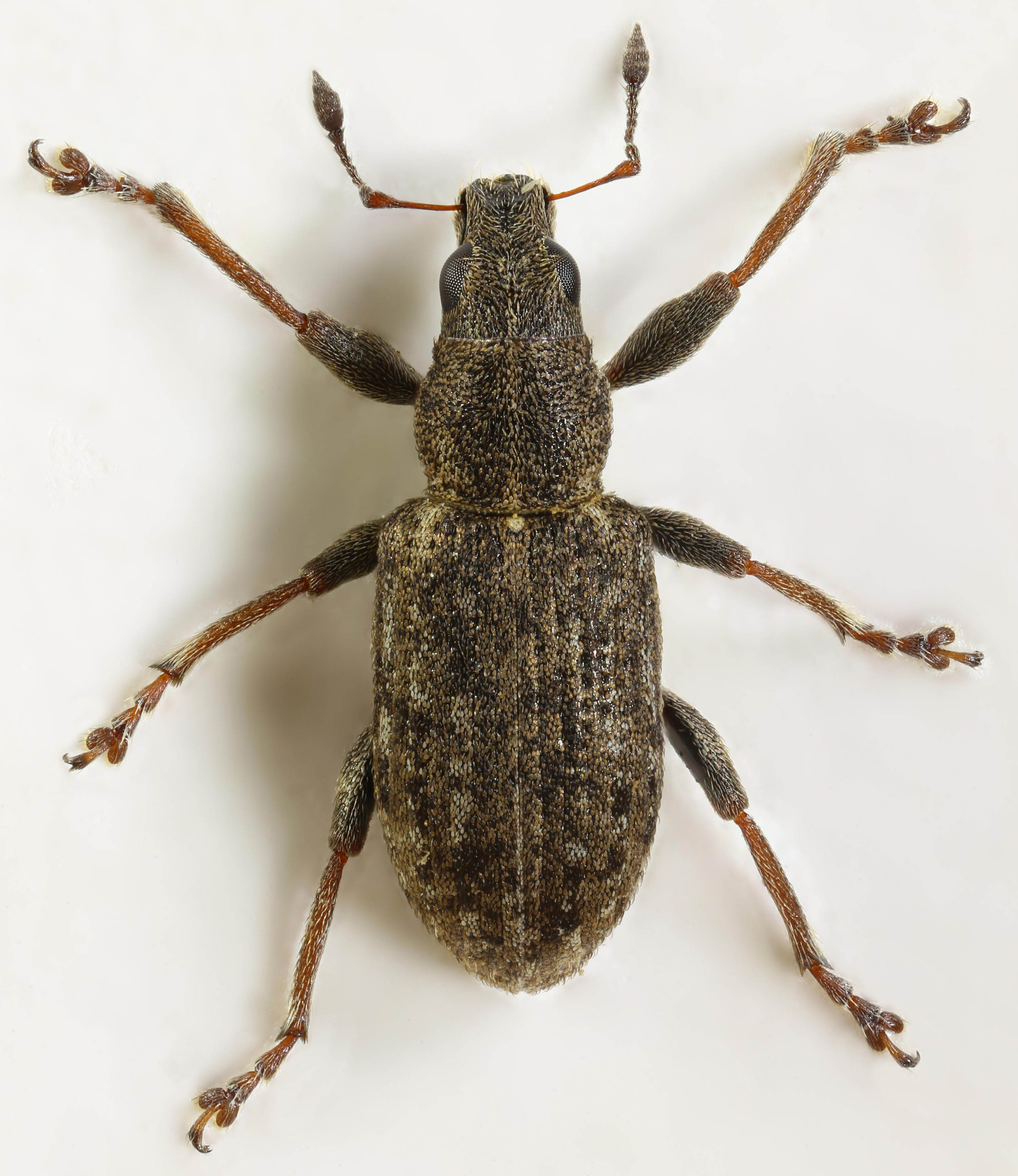 Sitona cylindricollis, Brymbo, North Wales, Aug 2016 2